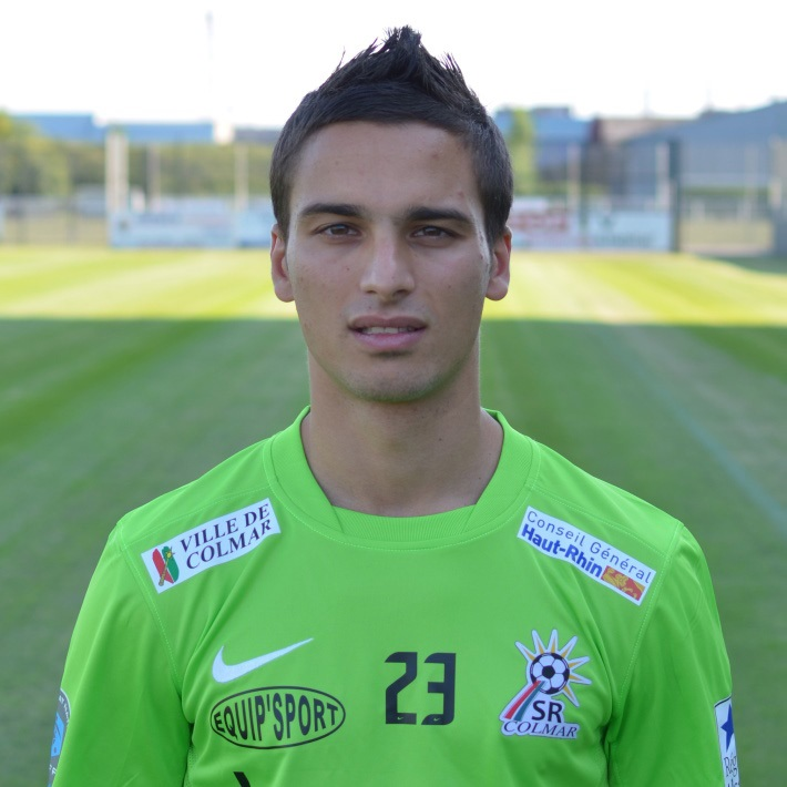 SR Colmar